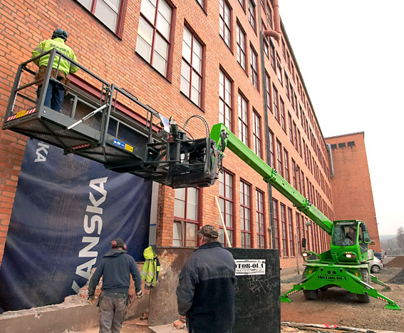 Telescopic handler Merlo Roto with aerial work platform